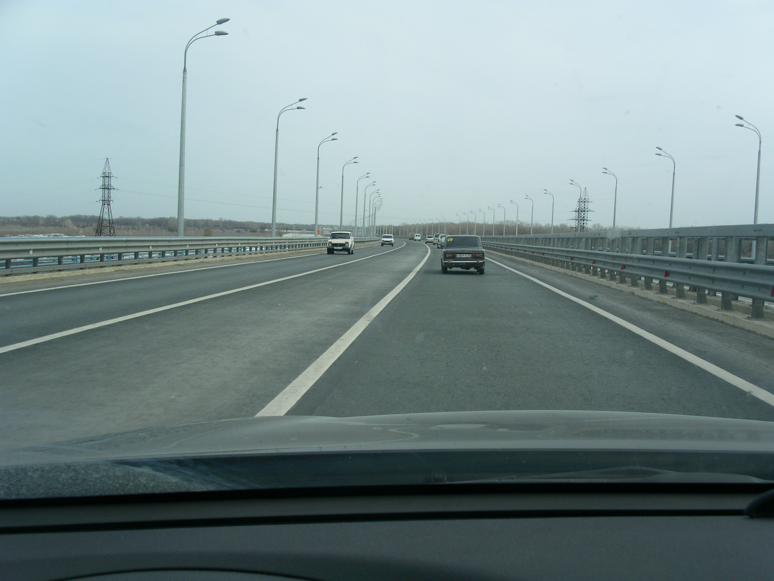 Crossing the Volgograd "Dancing Bridge" in March 2010